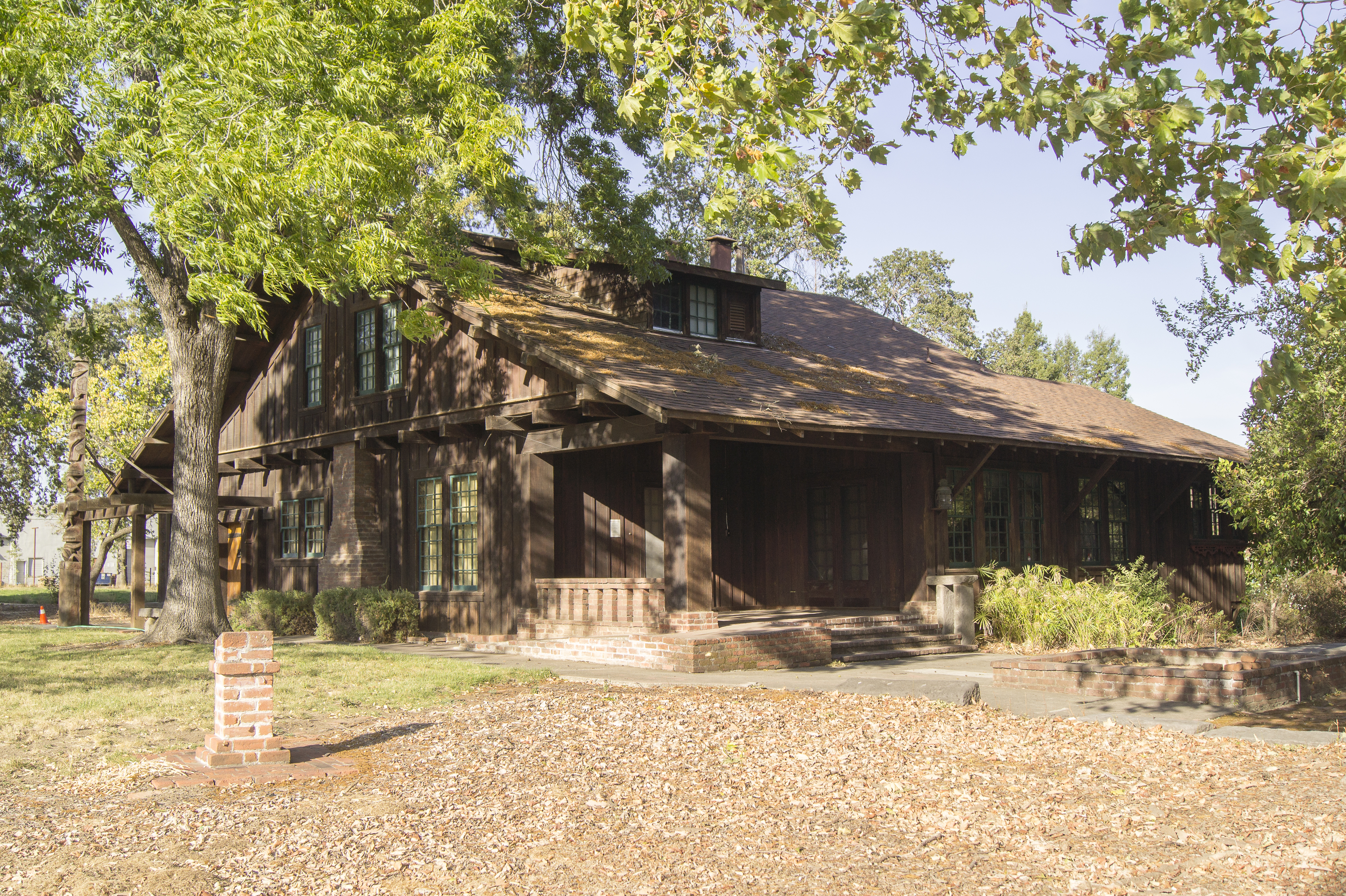 The Sun House - Grace Hudson's house at 431 S. Main Street, Ukiah, California 95482. The Sun House is listed as a California Historical Landmark (#926) and in the National Register of Historic Places (ID: 81000161).